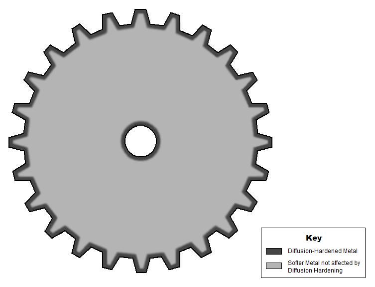 Image created by Open Source fan on 21 April 2008 and released to public domain with no reservations.